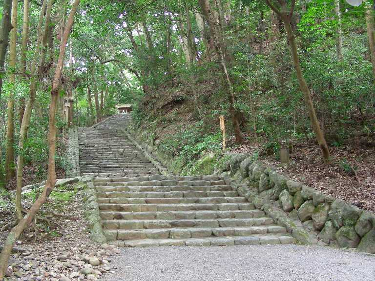 Upstairs to the Betsugu Taka-no-miya Sanctuary of Toyoukedaijingu (Geku) at Ise city, Mie prefecture, Japan.